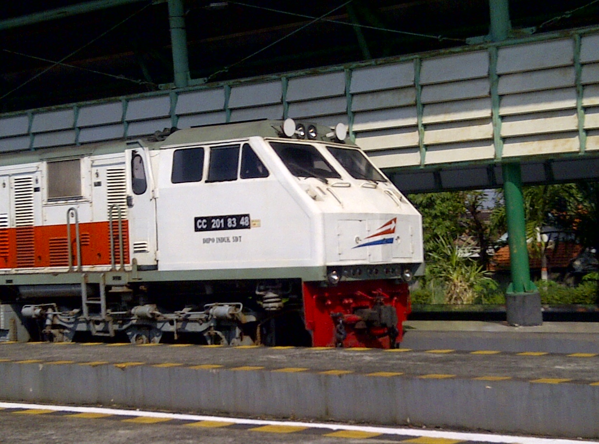 A U20C integral of Kereta Api Indonesia GE Transportation U18C locomotive, numbered CC201 83 48 (Formerly 129R); seen @ Stasiun Sidoarjo.